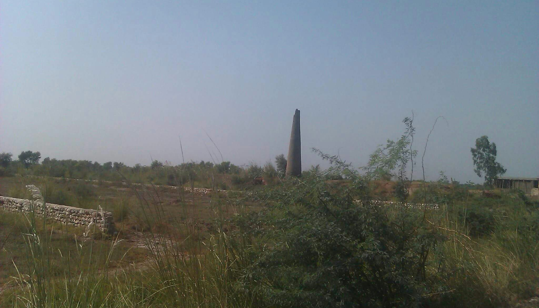 I also Uploaded this Photo on Botala Facebook Page & on website